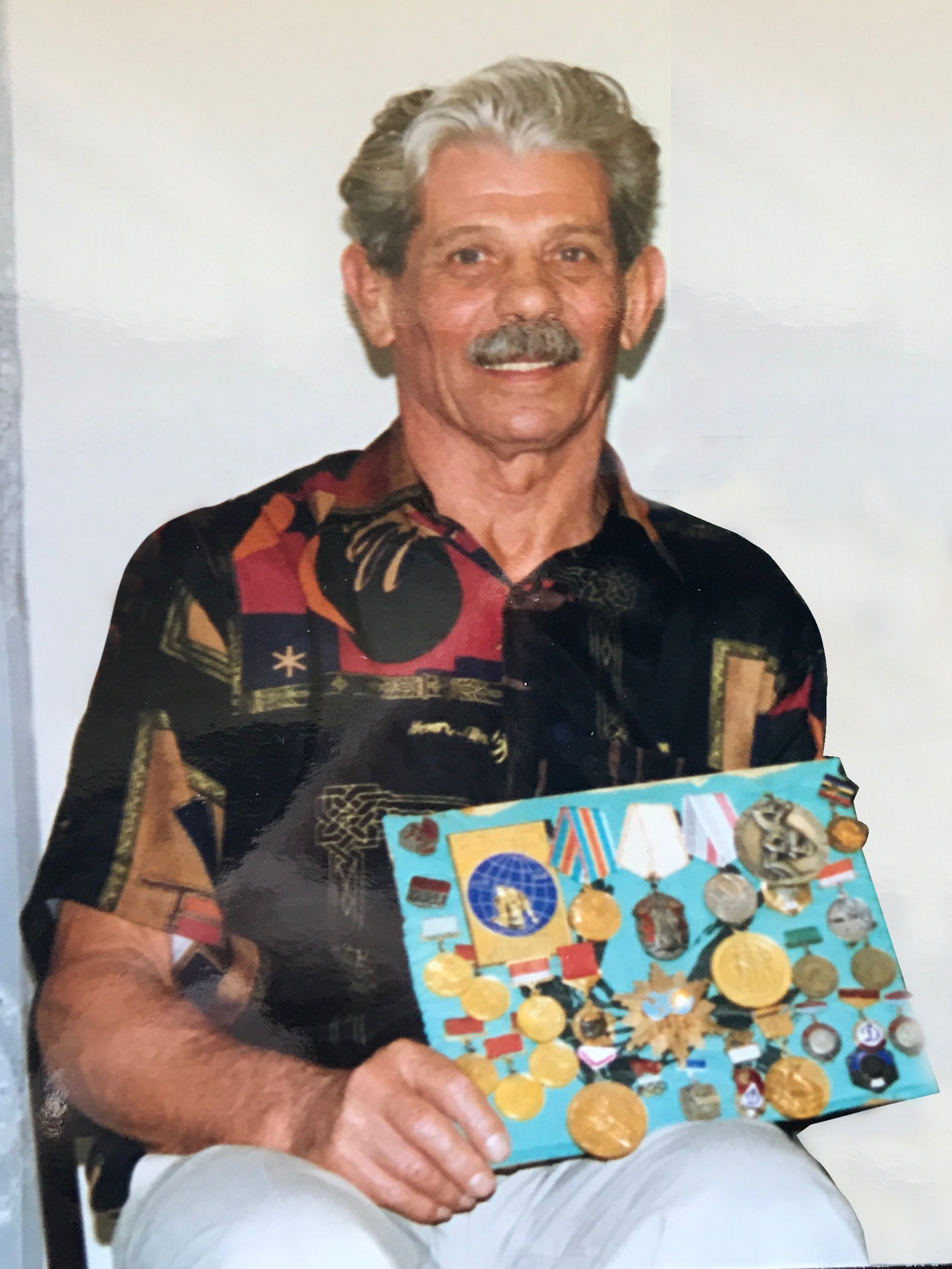 Grigoriy Gamarnik in later years